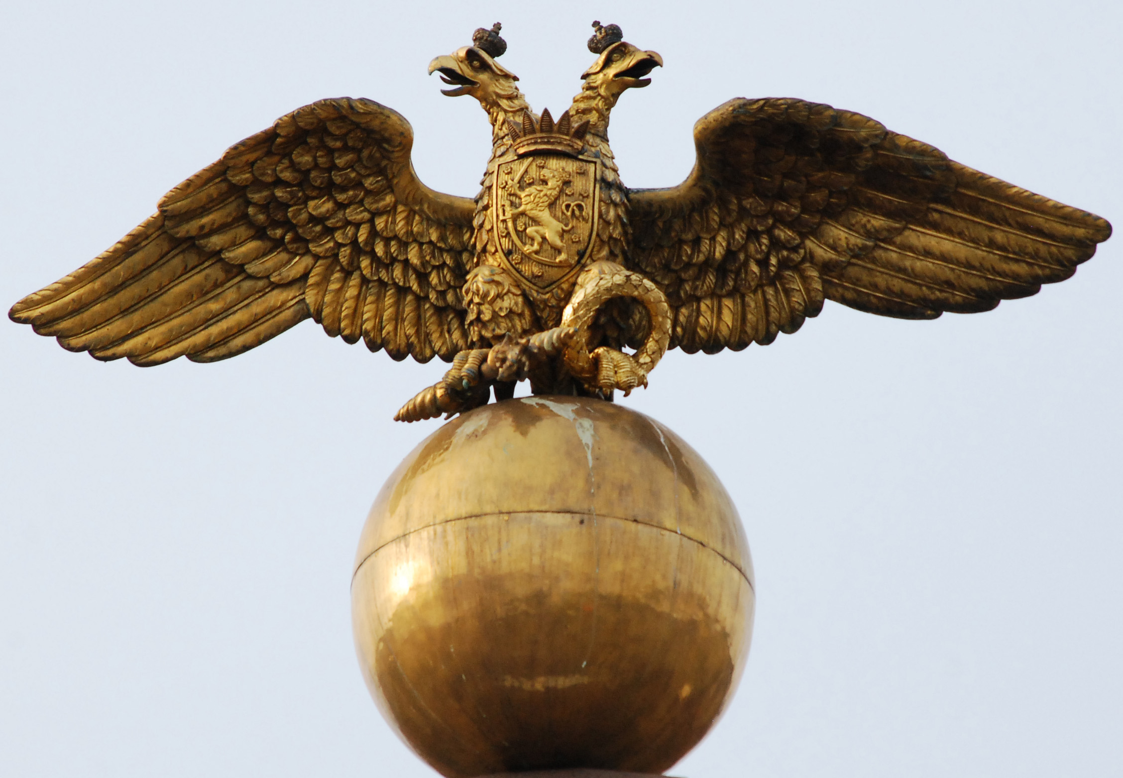 In the Market Square is Helsinki’s oldest public monument, the Tsarina’s Stone, topped by a globe and a double-headed eagle, the emblem used by the Tsars of Russia. The eagle’s breastplate shows a lion, the coat of arms of Finland. The monument was erected in 1835 in honour of the visit by Tsar Nikolai I and the Tsarina Alexandra.